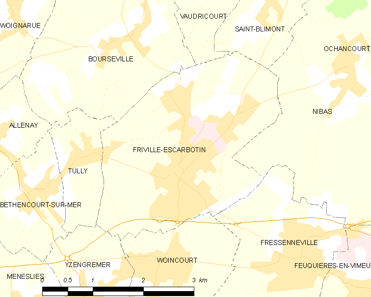 Map of French municipality Friville-Escarbotin